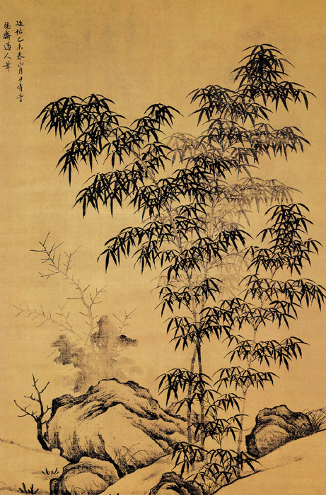 Giant Bamboos and Stones, Li Kan, Yuan Dynasty, China, Nanjing Museum.